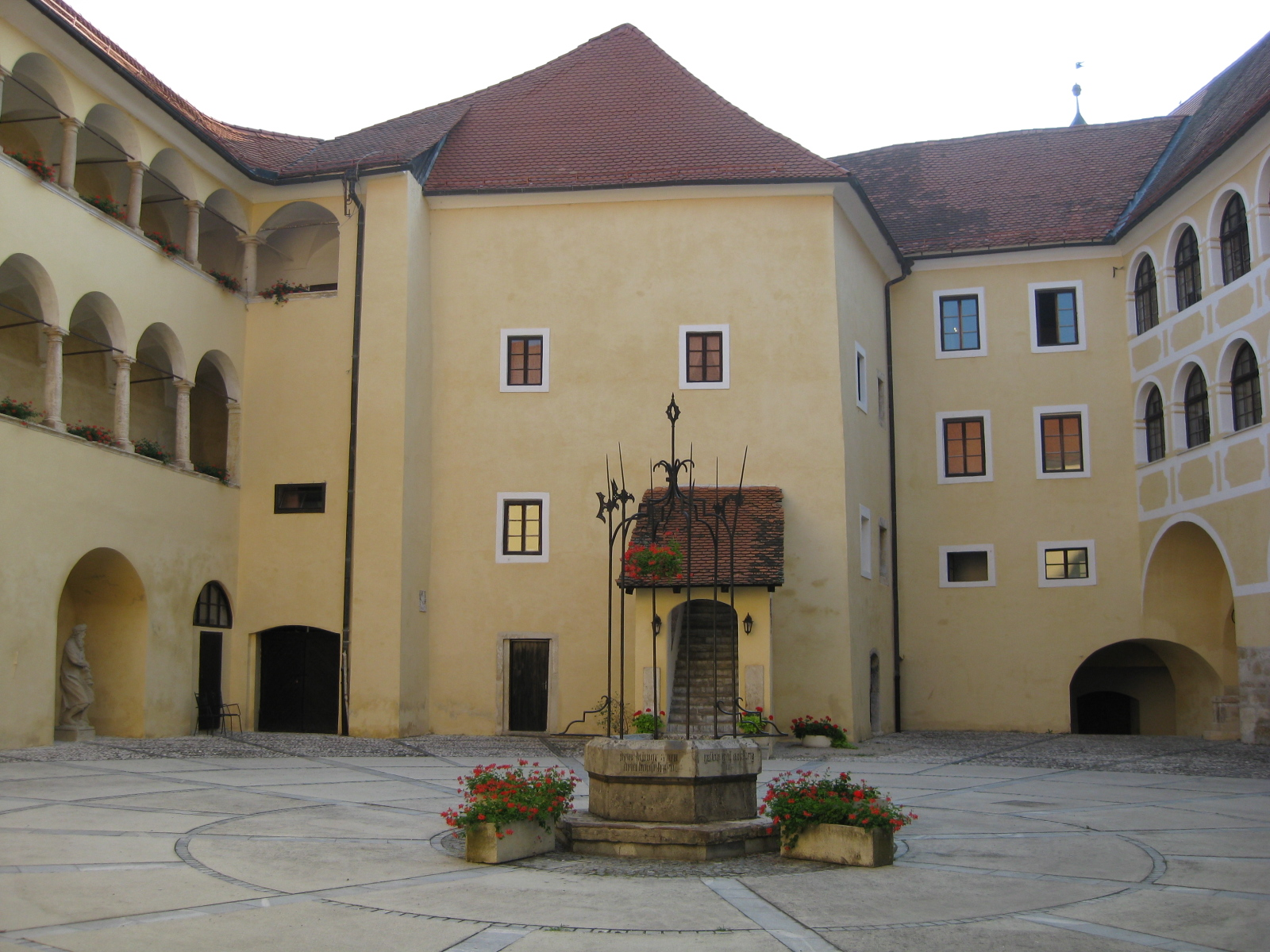 Mokrice castle, Slovenia